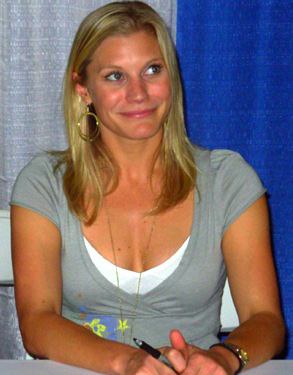 Katee Sackhoff at the Wizard World Convention 2008 in Philadelphia, PA.